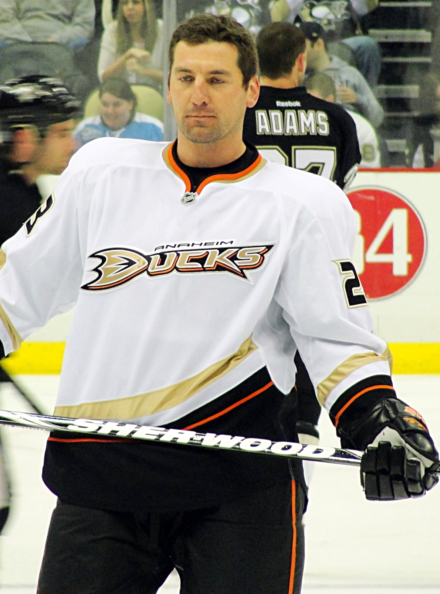 François Beauchemin of the Anaheim Ducks skates against the Pittsburgh Penguins, February 15, 2012 at Consol Energy Center in Pittsburgh, PA.